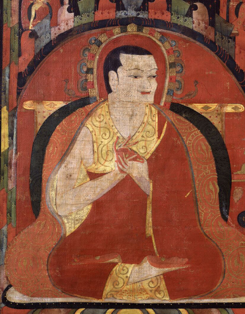 Kuyelwa Rinchen Gon, b.1191 - d.1236, 2nd Abbot of Taklung Monastery, Tibet